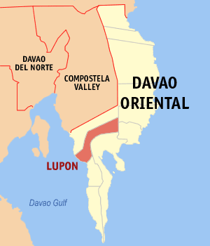 Map of the Davao Oriental showing the location of Lupon